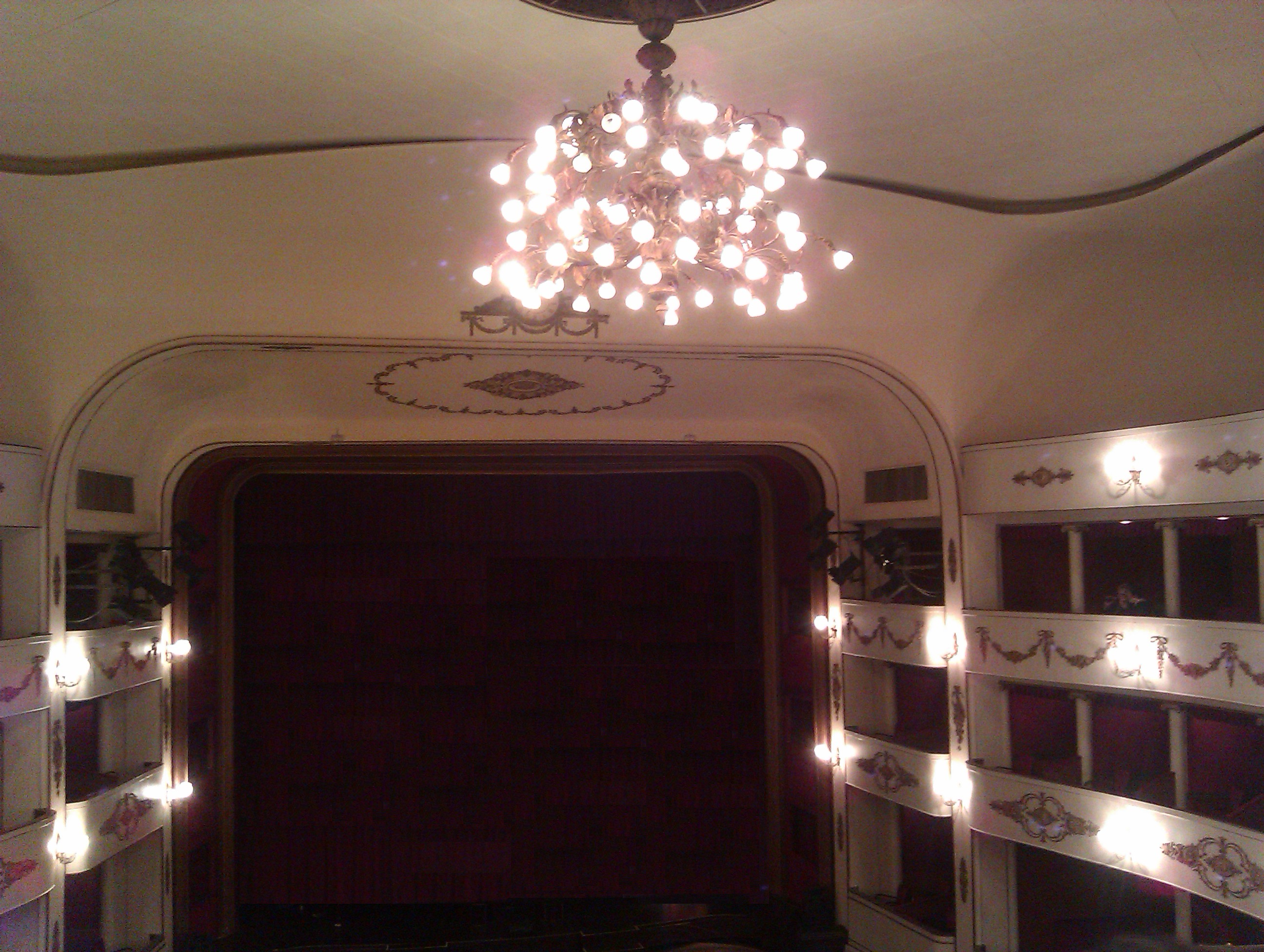 Interior teatro Nuovo in verona